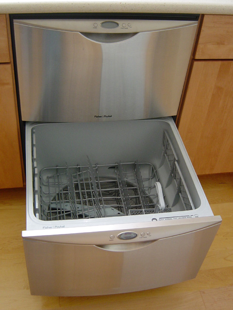 This picture shows a different design of dish washer by Fisher & Paykel from New Zealand. The unit, known as a DishDrawer, has two drawers which can be operated individually or simultaneously. The smaller load allows the family to start the machine after each meal instead of saving up dirty dishes to fill the machine. The smaller capacity does have a disadvantage: big pots and pans do not fit. The dish drawer design comes in single drawer unit or double decker unit (as shown). The exterior finish comes in stainless steel or replaceable face to take a kitchen cabinet panel to blend in with the rest of the kitchen.